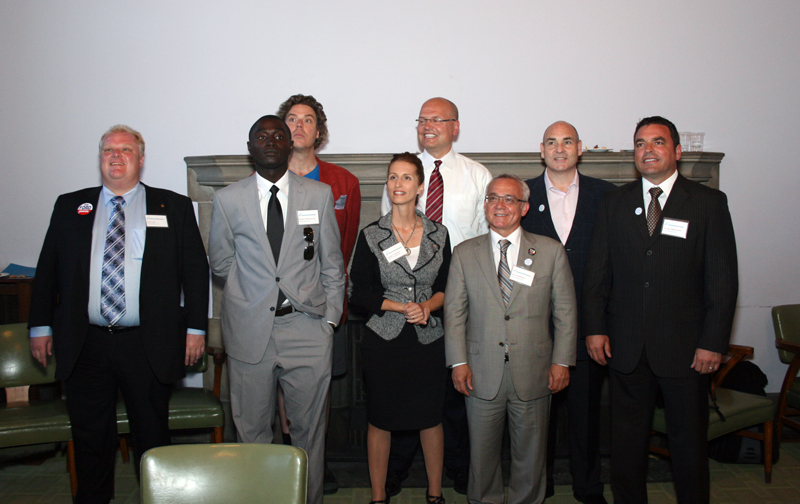 Mayoral candidates at the "Better Ballots" Mayoral Candidates Forum at Hart House, University of Toronto. From left to right: (front row) Rob Ford, Rocco Achampong, Sarah Thomson, John Pantalone, George Mammoliti, (back row) Keith Cole, Rocco Rossi, George Smitherman.